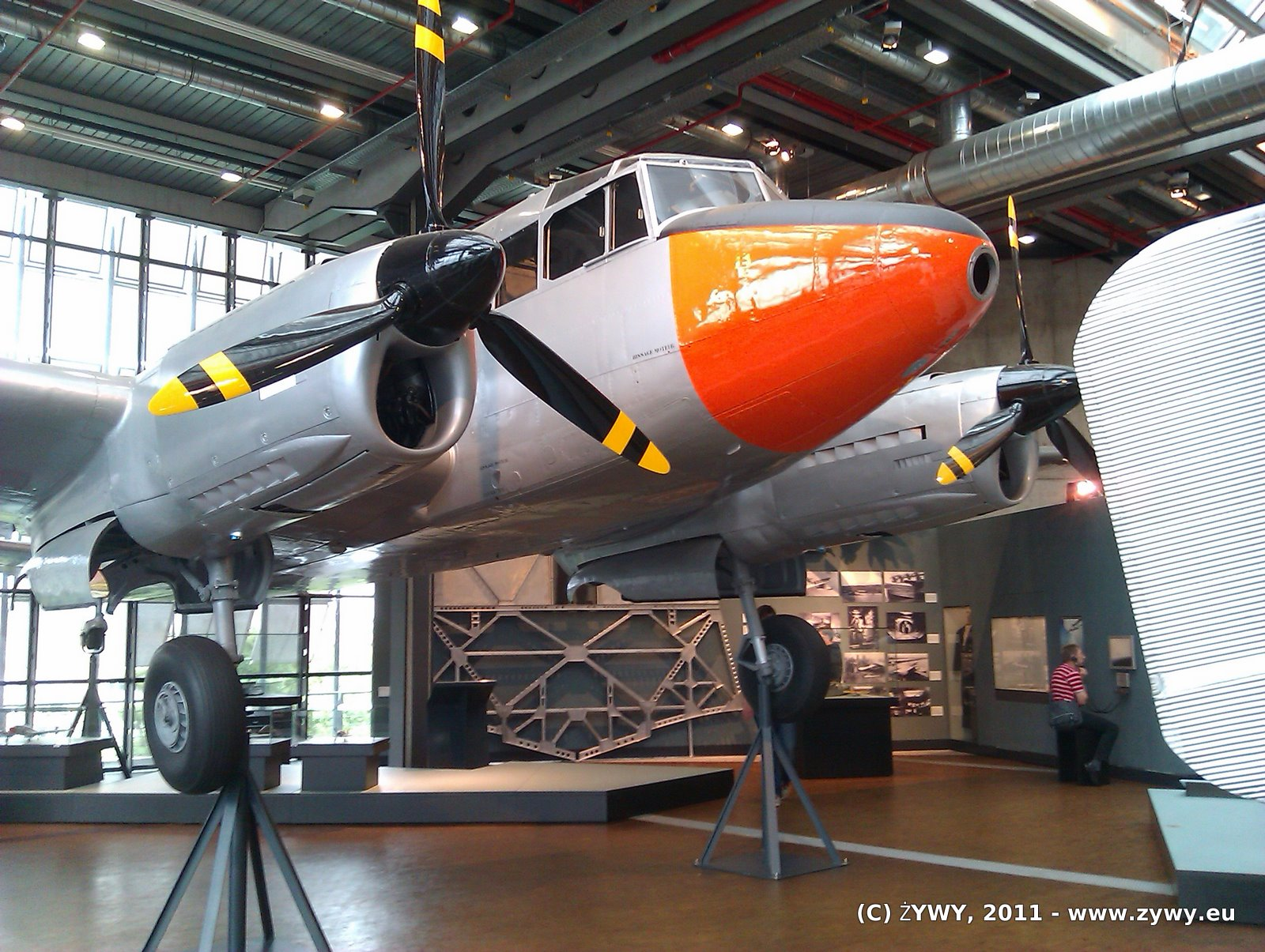 An SNCAC NC.702 Martinet at the Deutsches Technikmuseum Berlin Niemcy